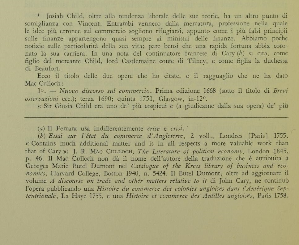 Footnotes